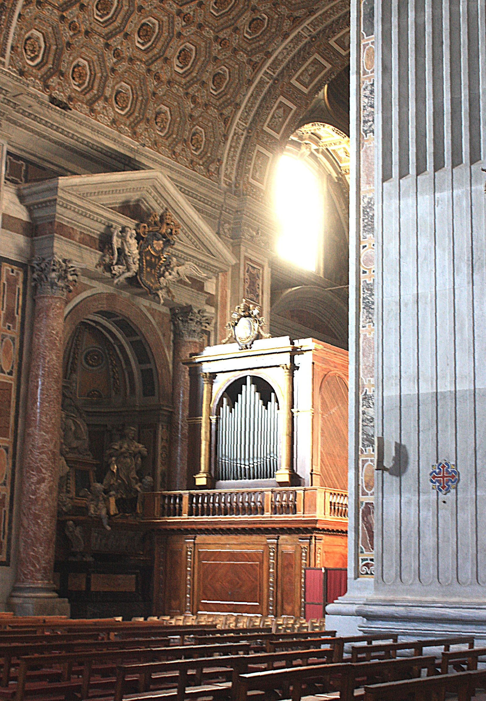 Vatican, Saint Peter's Basilica, a organ